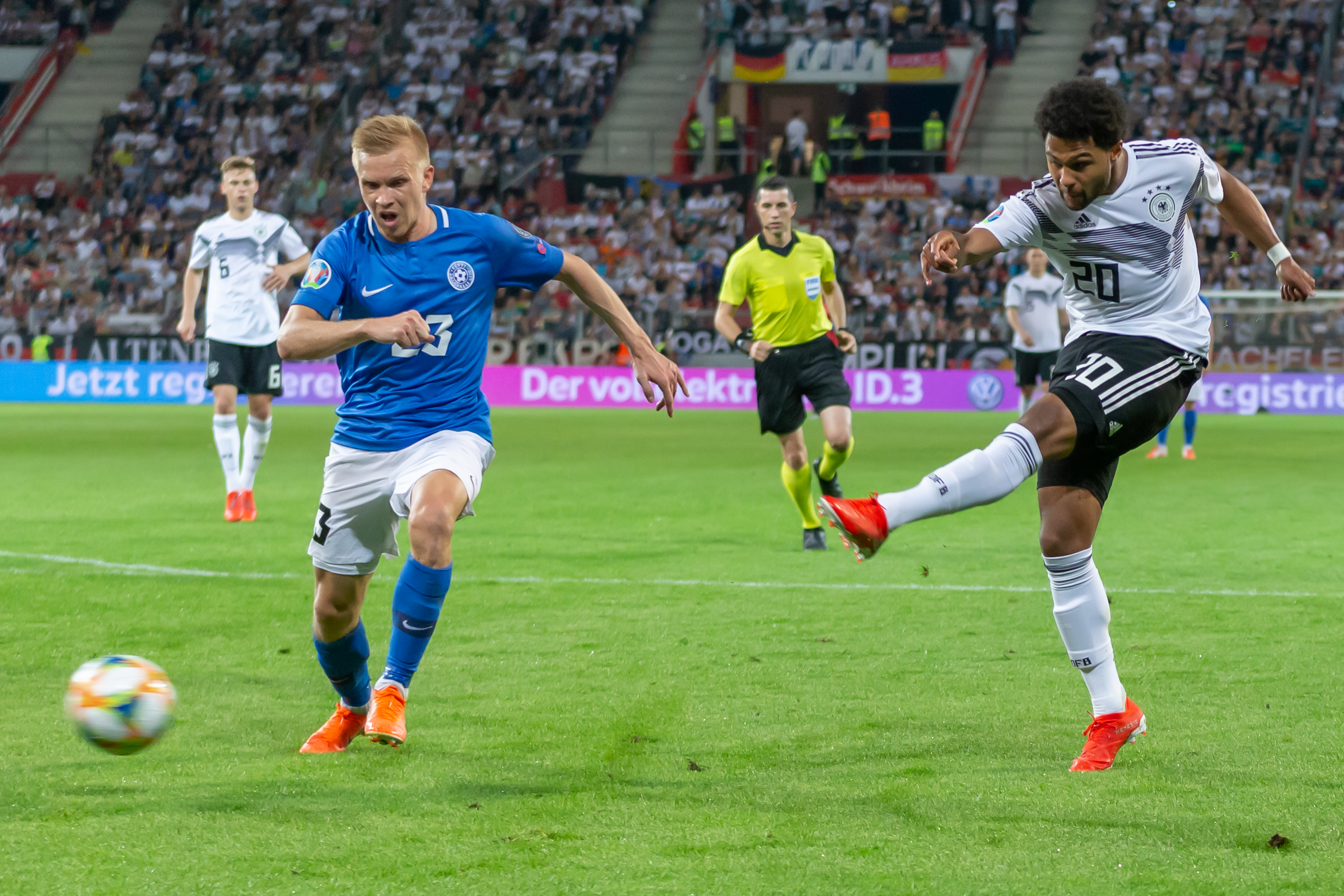 UEFA Euro 2020 qualifier Germany-Estonia